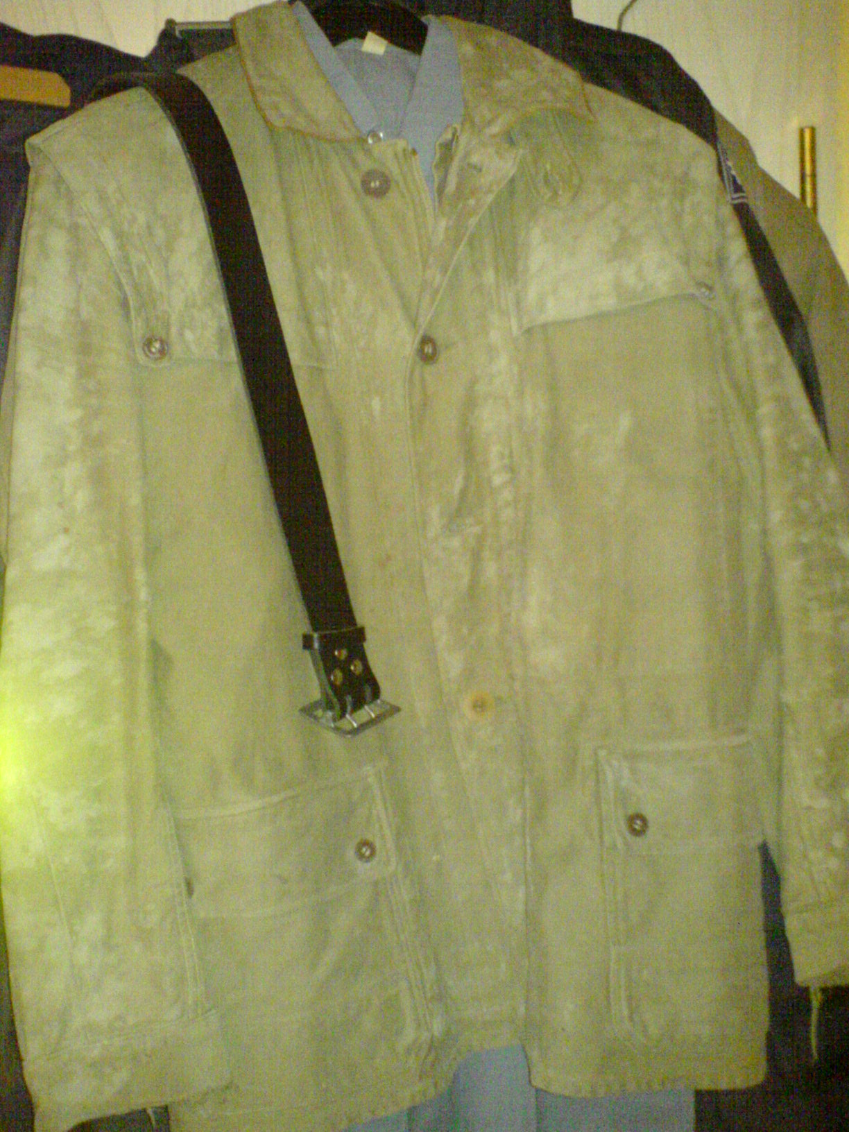 Jacket of the West German Civil Protection Service in the early 1960s.